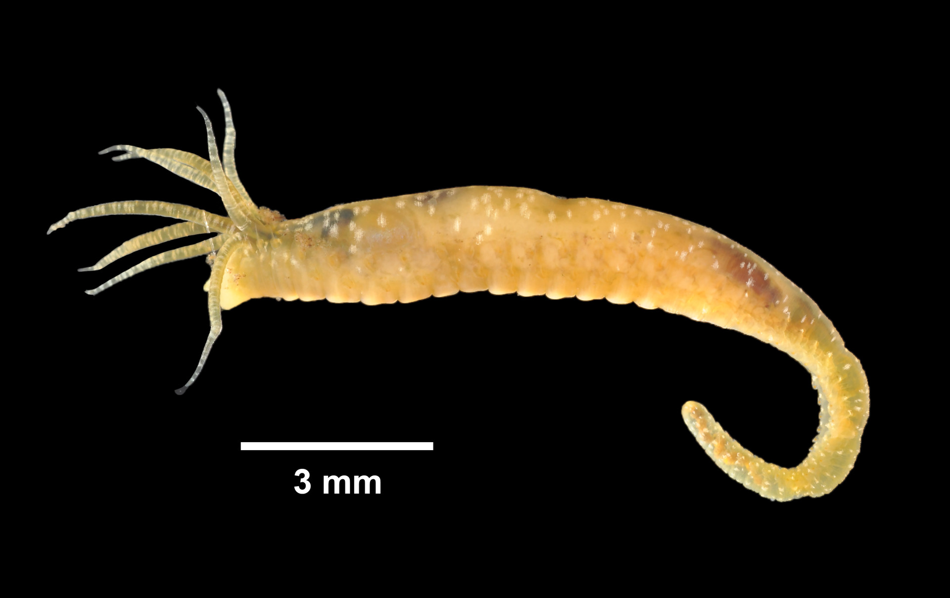 PRESERVED_SPECIMEN; ; ; 70% alc.; GM image; IZ number 81001; lot count 1; 2016-06-07T00:00:00Z